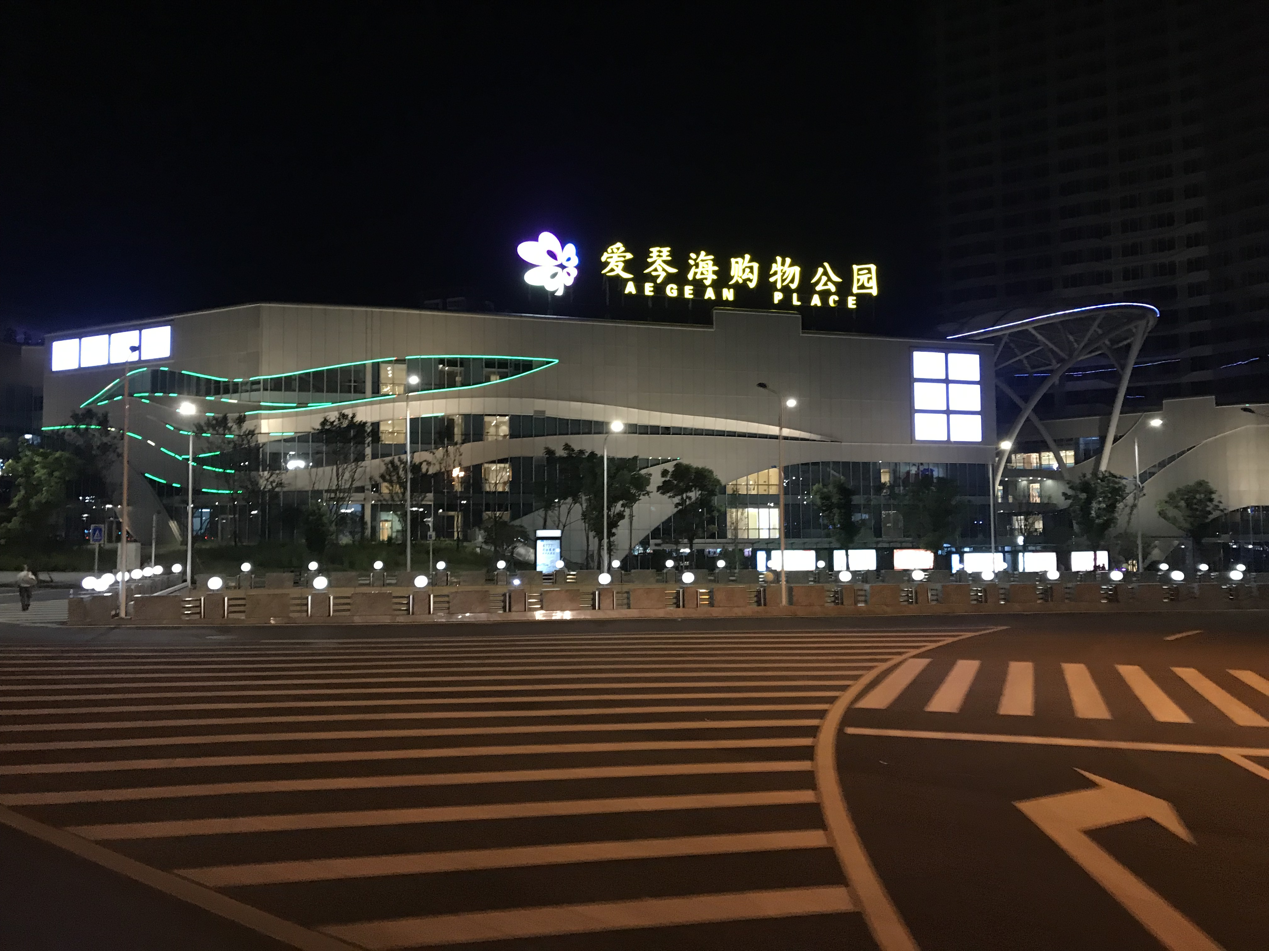 201908 Aegean Place, Zunyi